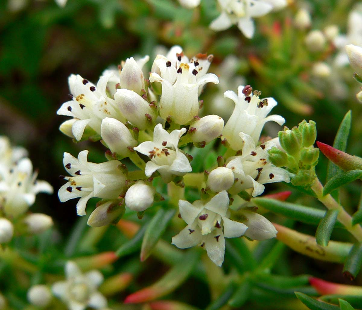 Photo of Crassula sarcocaulis at the UBC Botanical Garden